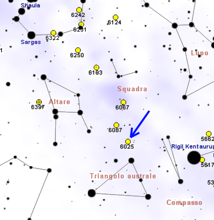 NGC 6025